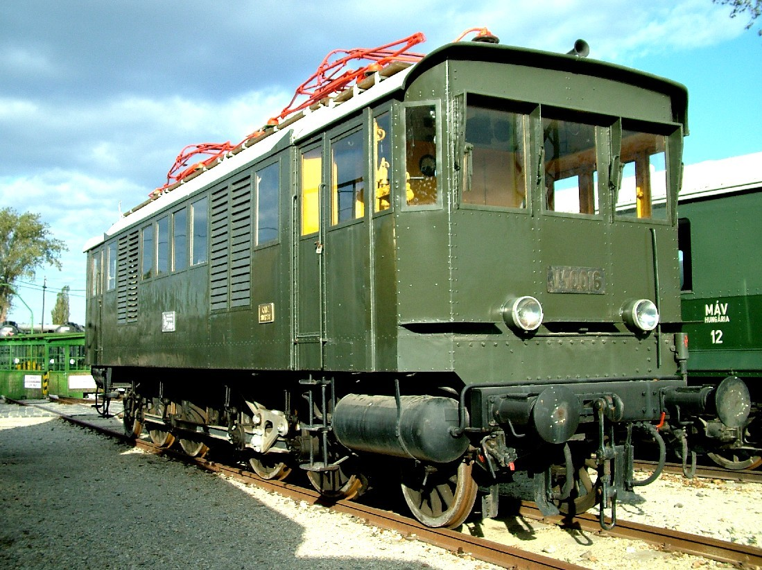 V40,016 of MÁV in Magyar Vasúttörténeti Park.